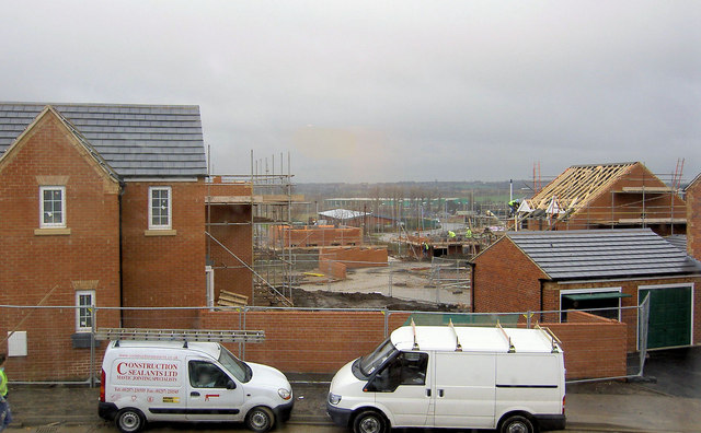 Regeneration. New houses in Grimethorpe by Haslam homes.